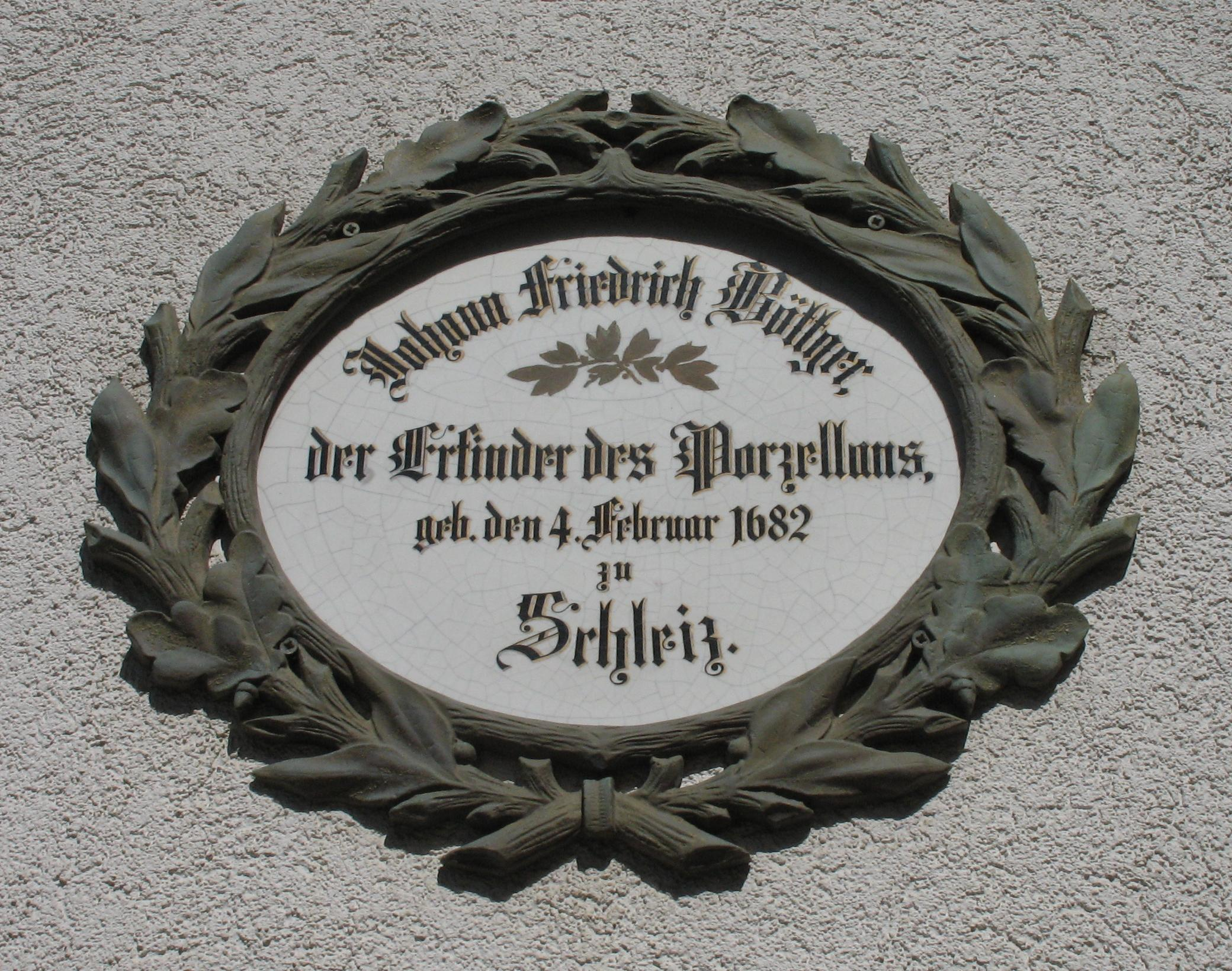 Commemorative plaque for Johann Friedrich Böttger in Schleiz in Thuringia, Germany